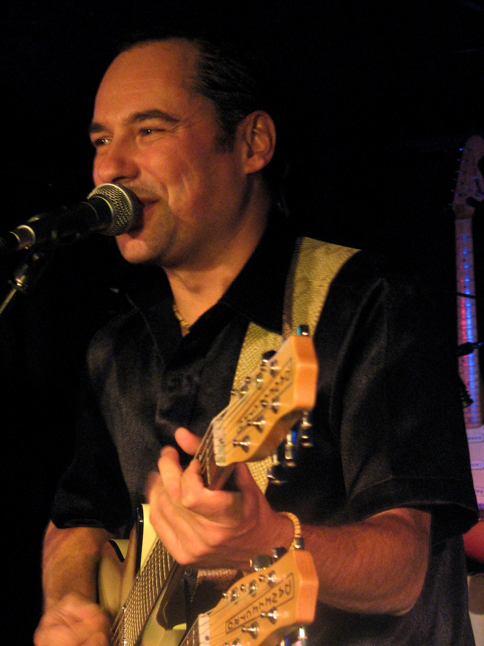 Enrico Crivellaro live in the NiX BBBlues Club in Enschede.